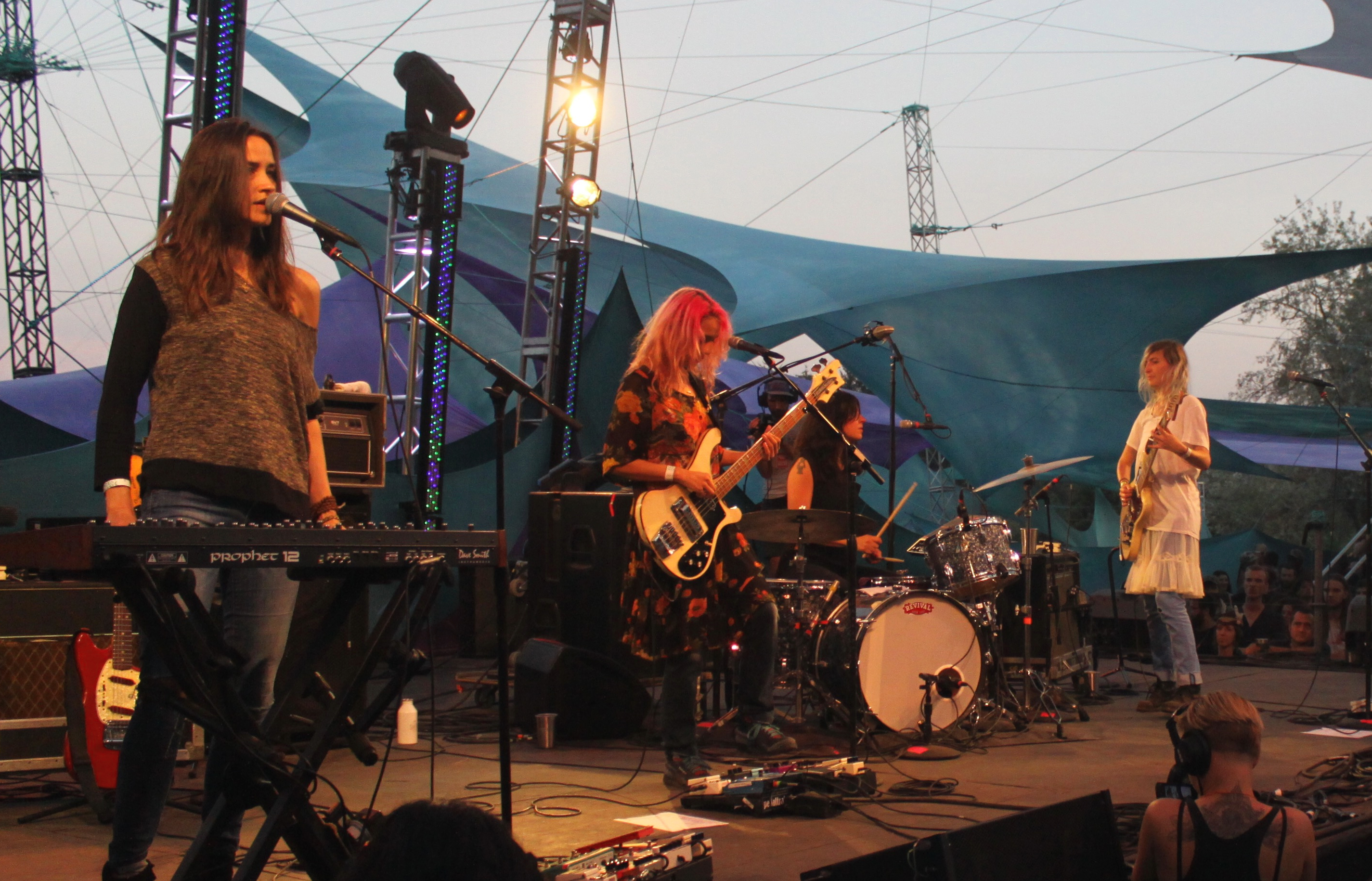 Indie rock band Warpaint performing at Pickathon Music Festival in Happy Valley, Oregon on August 2, 2014.